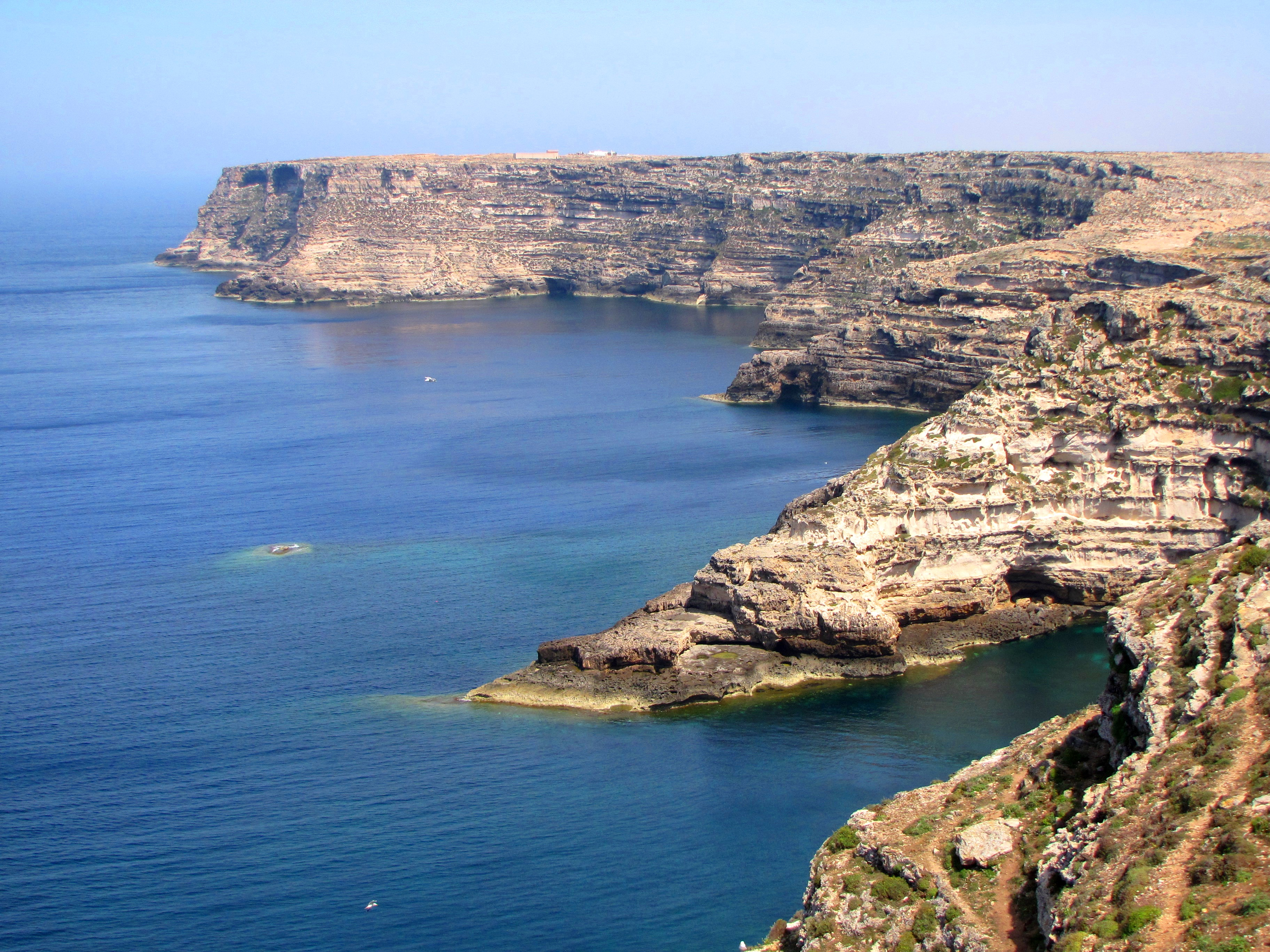 North-Eastern cliffs of Lampedusa, photo by Arnold Sciberras